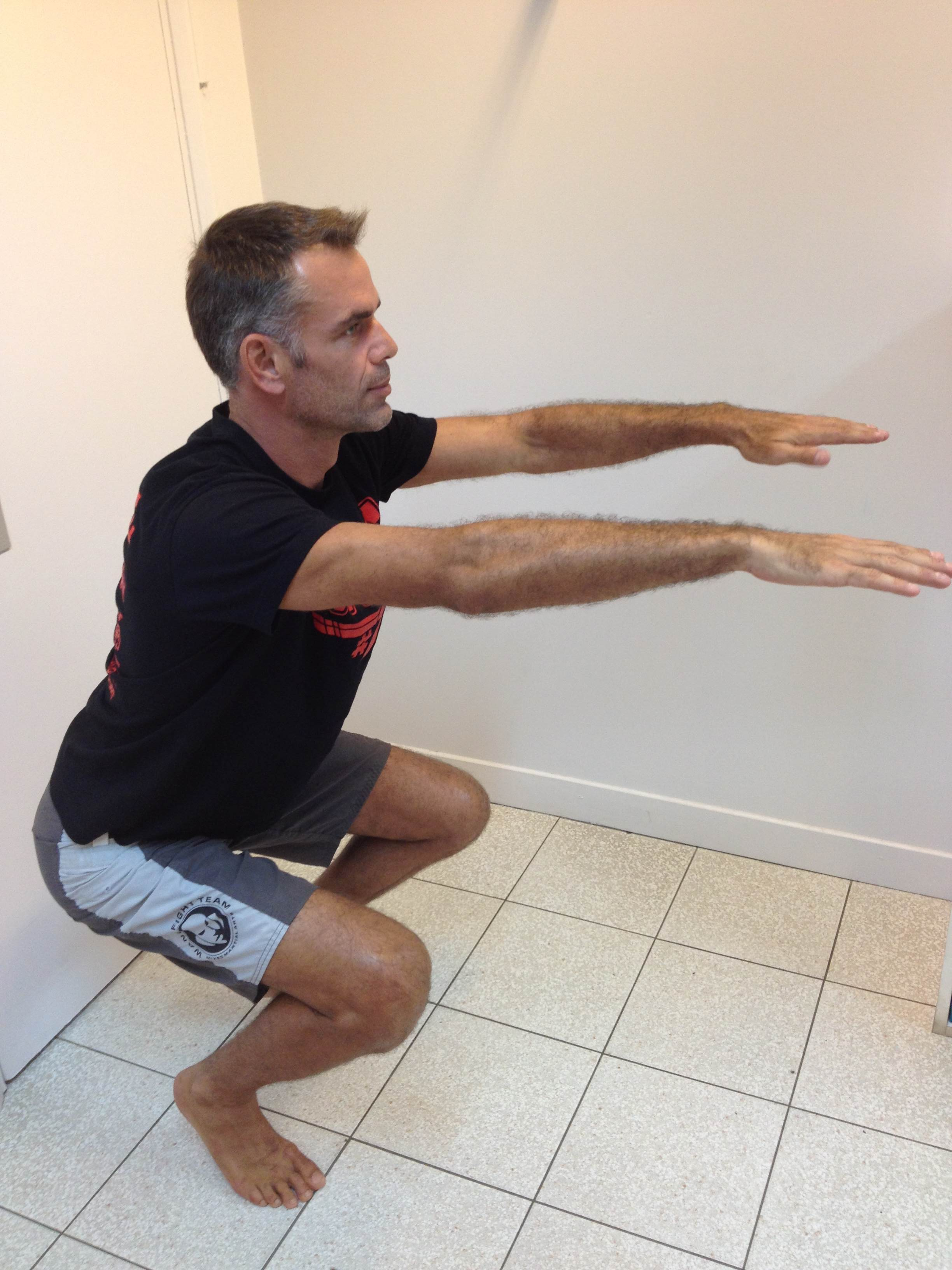 Ruffier Dickson Test